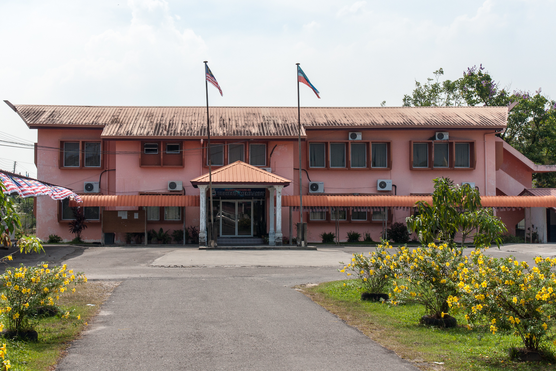 Membakut Small District Office (Pejabat Daerah Kecil Membakut)